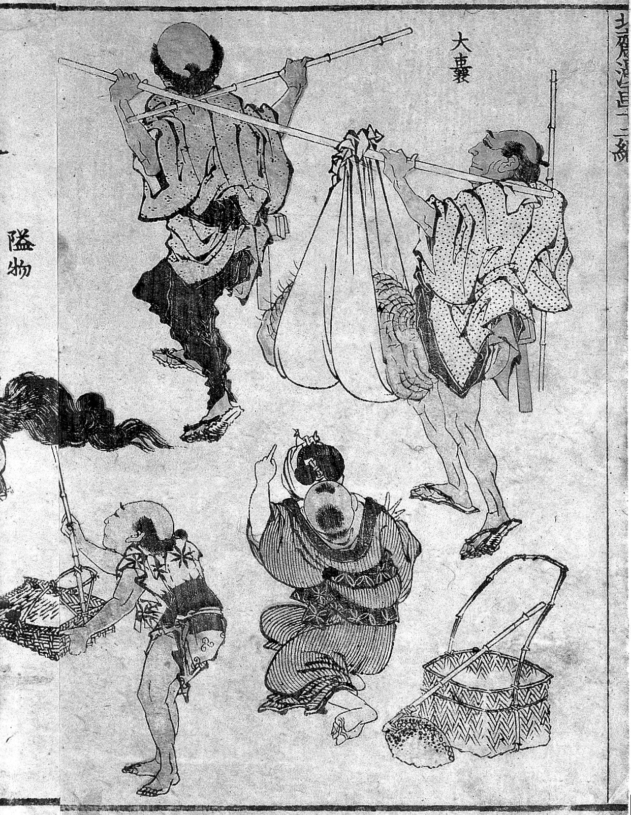 A man with filarial elephantiasis. For the Hokusai Mangwa, vol. 12, 1834, right side of print only. Asian Collection Keywords: Katsushika Hokusai